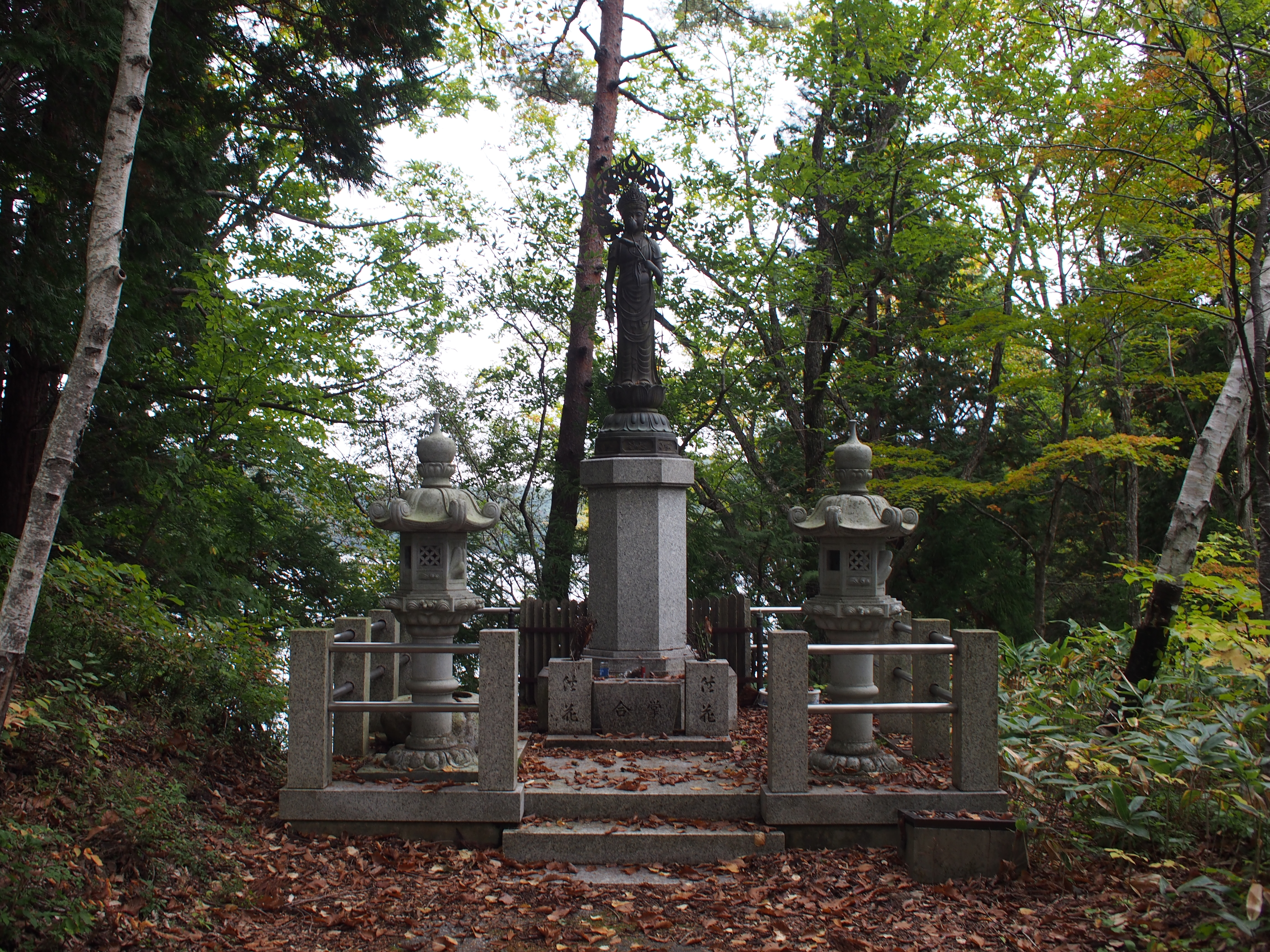 aoki lake bus crash cenotaph